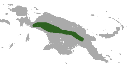 Speckled Dasyure (Neophascogale lorentzi) range